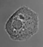 A Dictyostellium discoideum cell showing a prominent contractile vacuole on the left side.